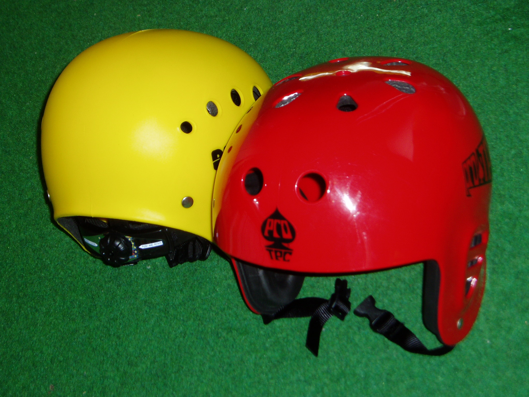 Two Canoe Helmets